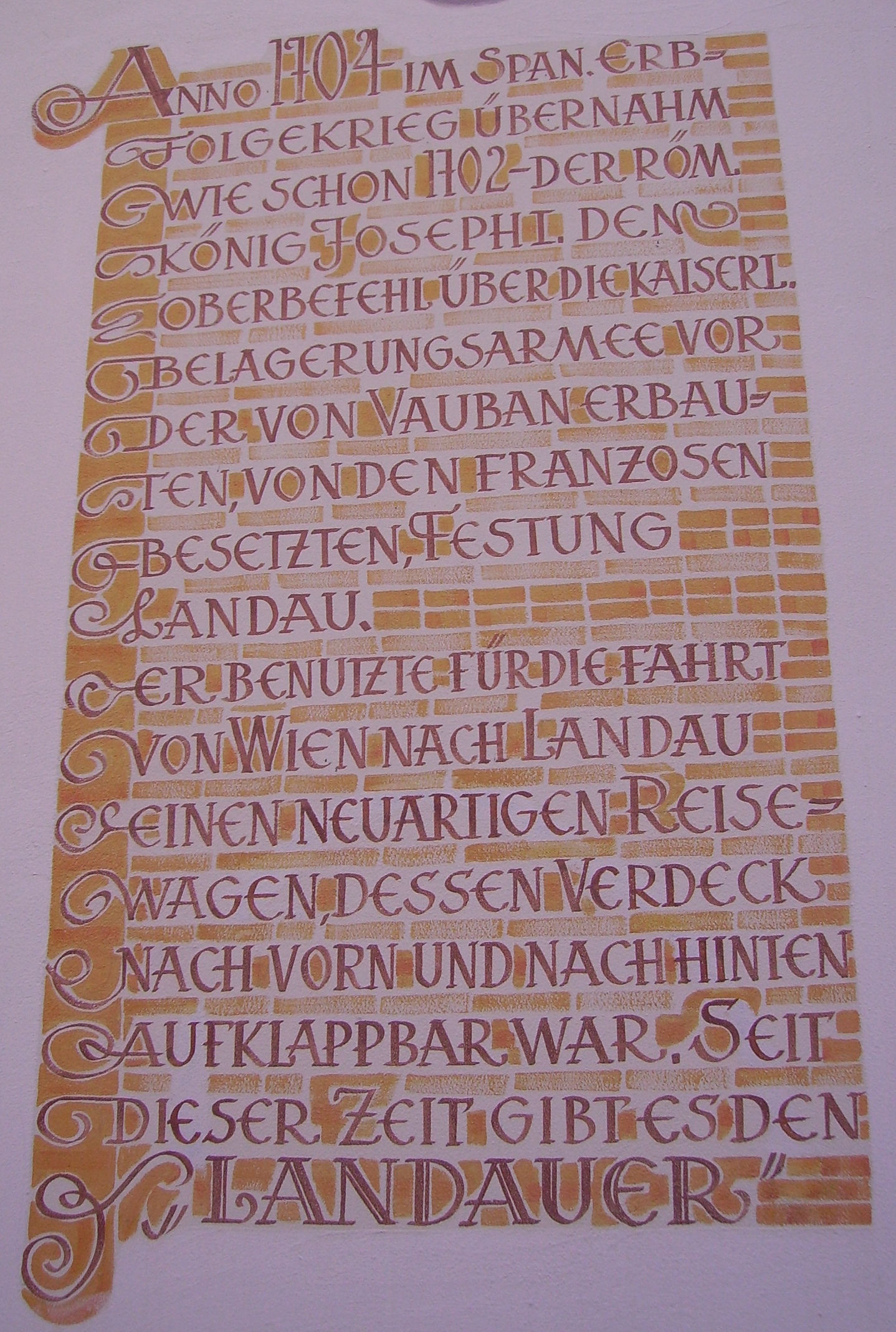 view of Landau (Pfalz), Germany